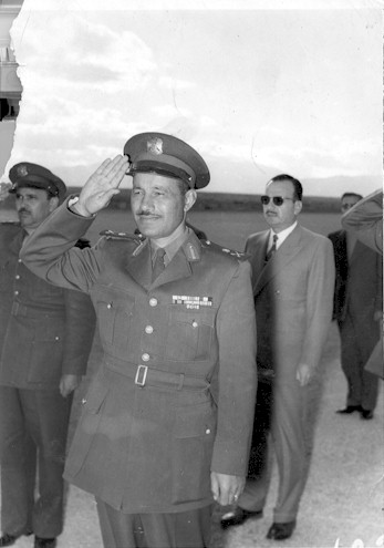 Afif al-Bizri saluting comrades